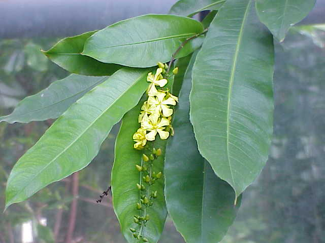 Species: Campylospermum schoenleinianum (= Ouratea schoenleiniana) Family: Ochnaceae Image No. 6